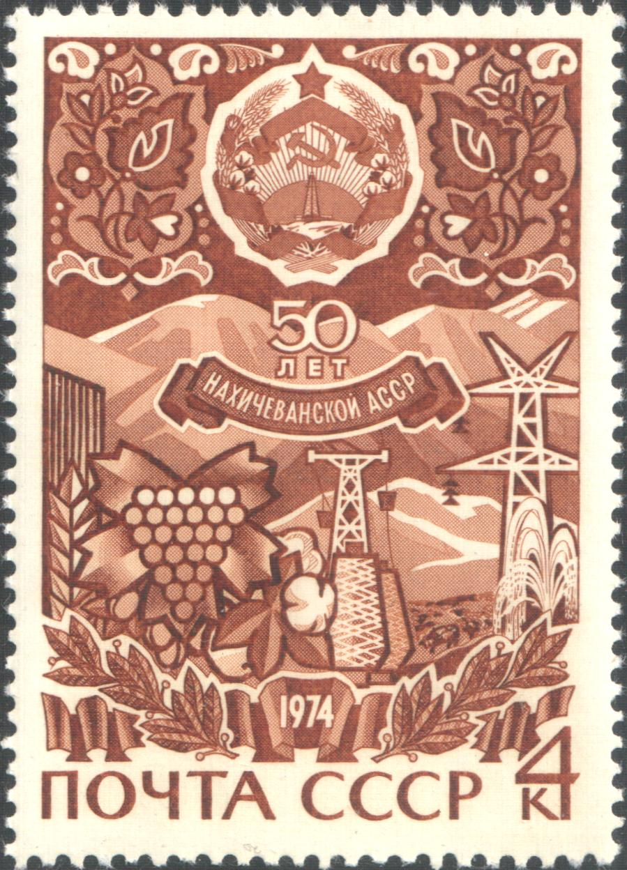 USSR stamp: Nakhichevan Autonomous Soviet Socialist Republic (Established on 1924.02.09). Series: 50th Anniversary of the Autonomous Republics of the Soviet Union